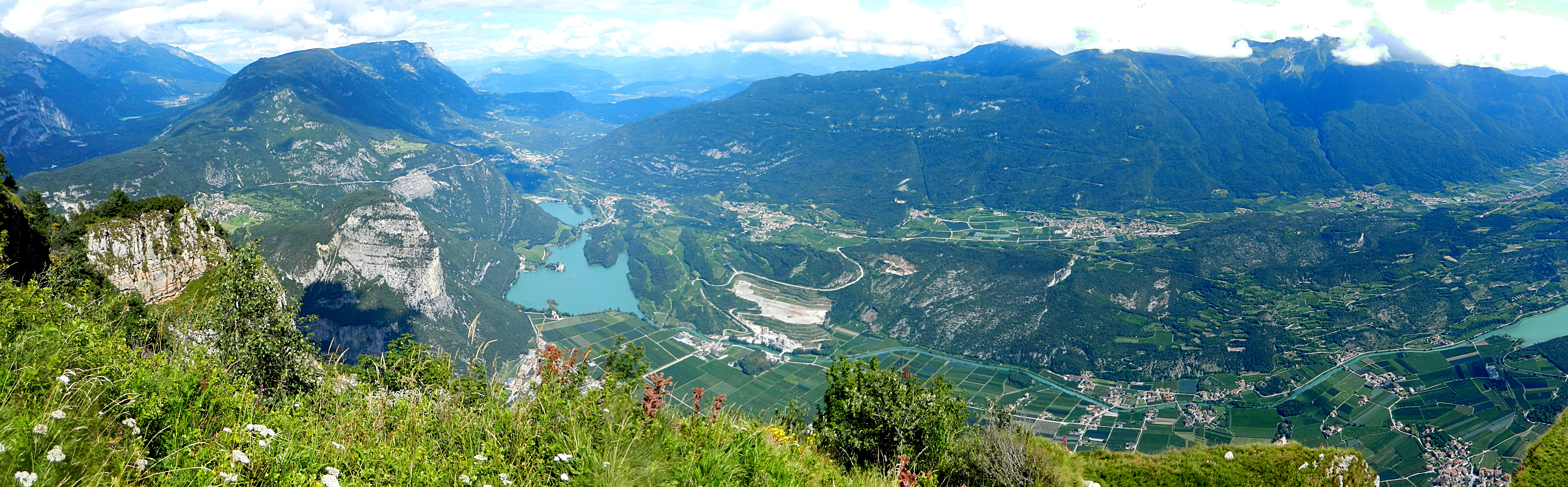 View of Valle dei Laghi with Toblino lake and Santa Massenza lake